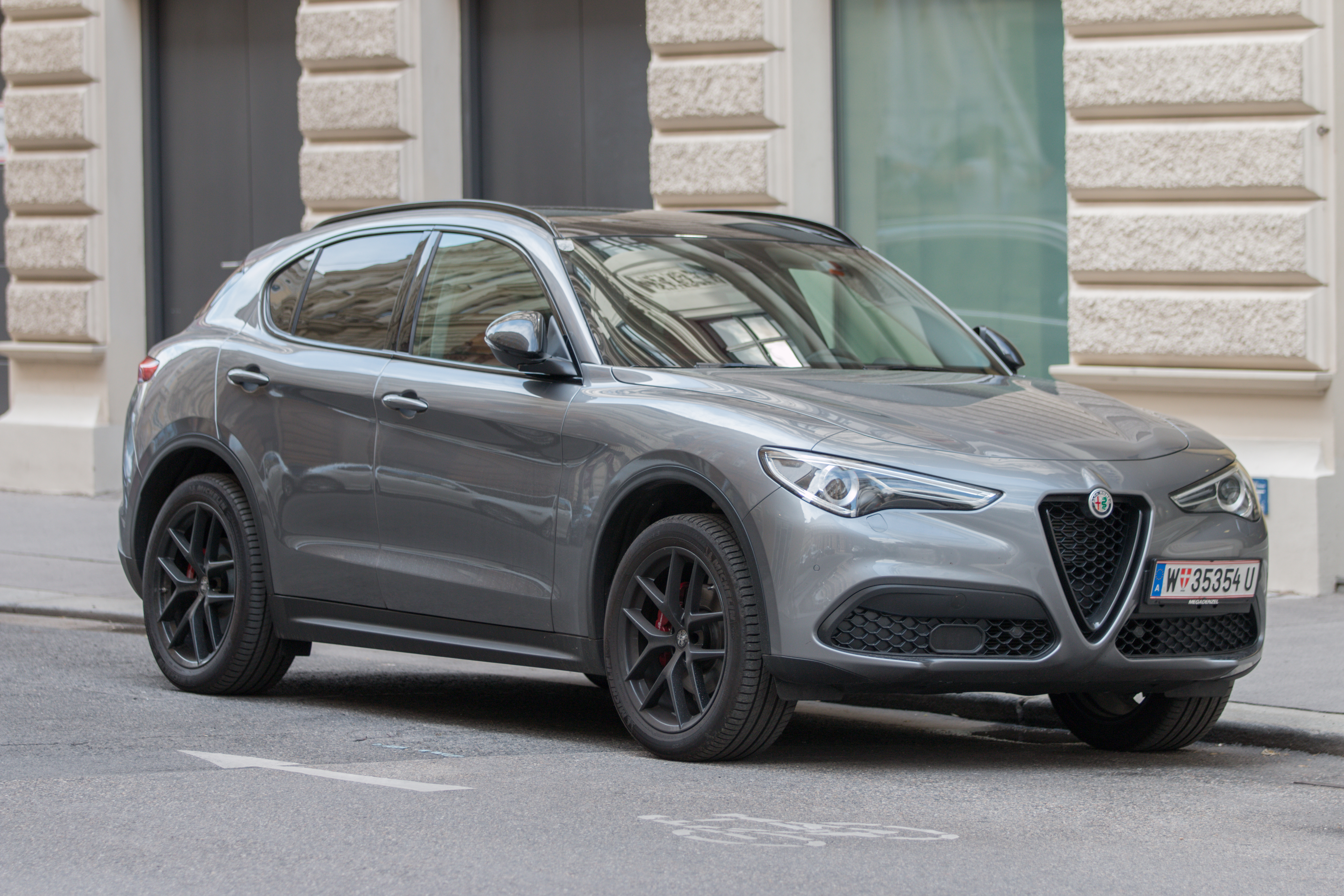 Alfa Romeo Stelvio